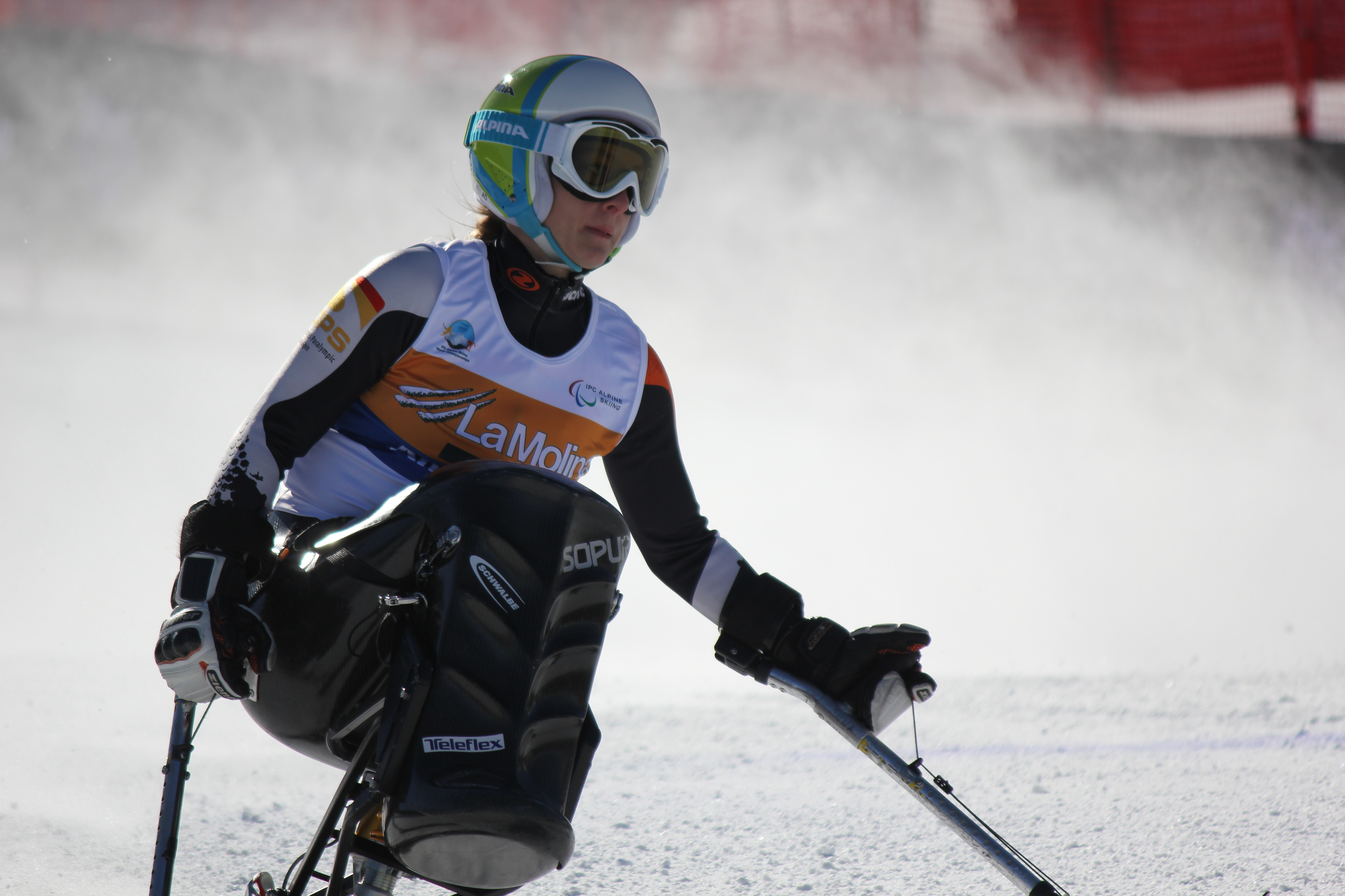 La Molina, Spain on the downhill competition day at the 2013 IPC Alpine World Championships. Women's sit skier Anna Schaffelhuber from Germany.